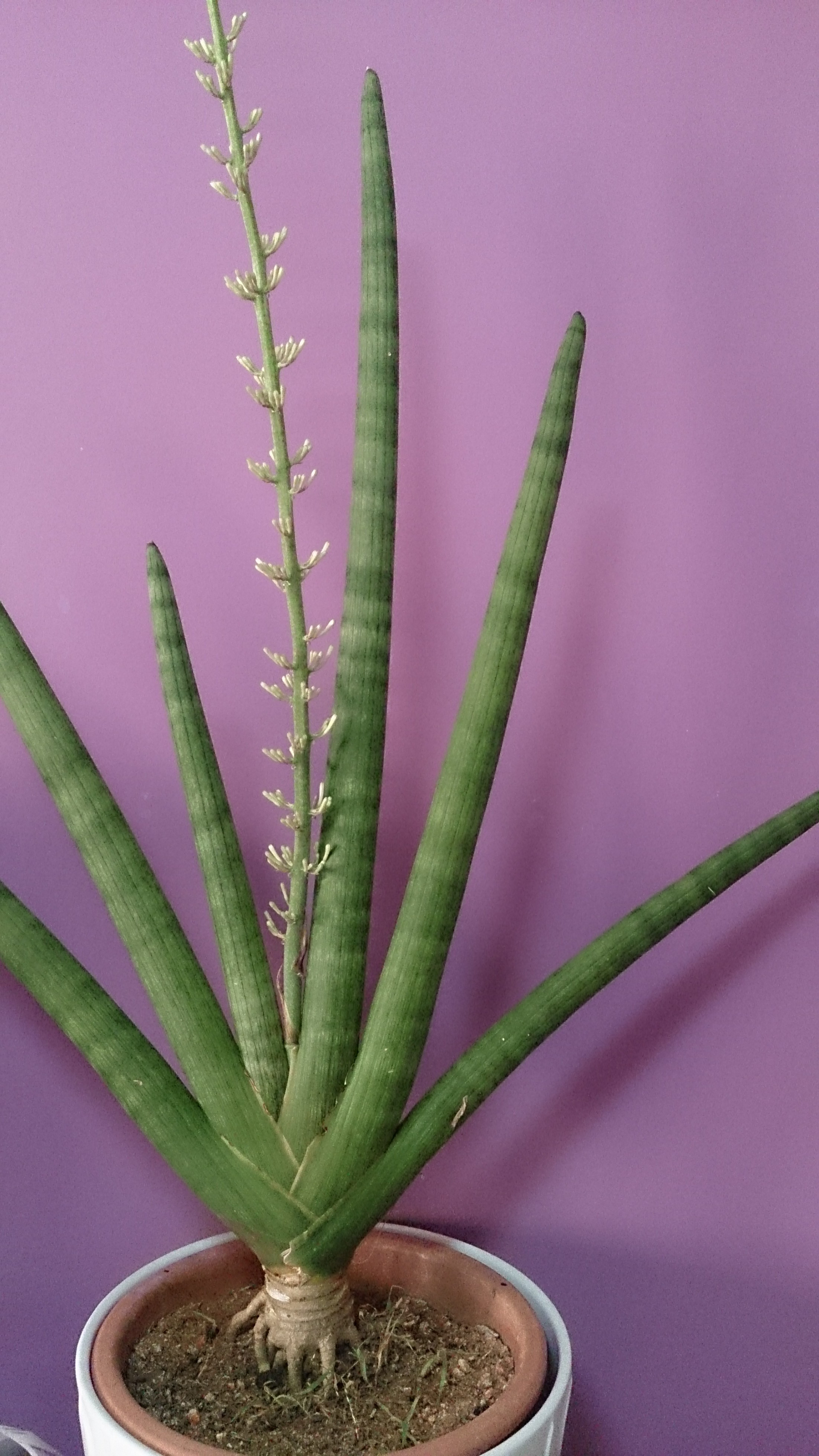 Sansevieria cylindrica